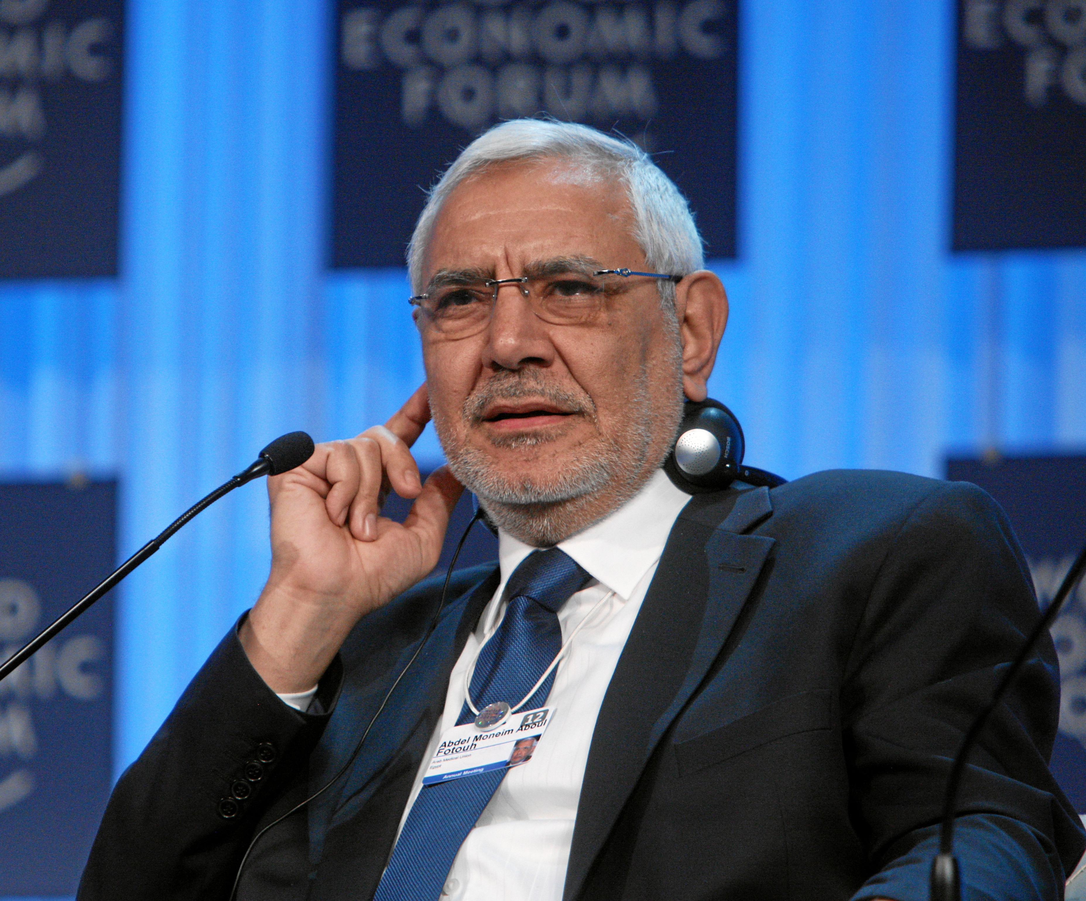 DAVOS/SWITZERLAND, 27JAN12 - Abdel Moneim Aboul Fotouh, Presidential Candidate, Egypt; Secretary-General, Arab Medical Union, Egypt is captured during the session 'From Revolution to Evolution: Governance in North Africa' at the Annual Meeting 2012 of the World Economic Forum at the congress centre in Davos, Switzerland, January 27, 2012.. . Copyright by World Economic Forum. by Remy Steinegger